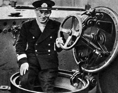 Jan Grudzinski, CO of the Polish Submarine "Orzeł"